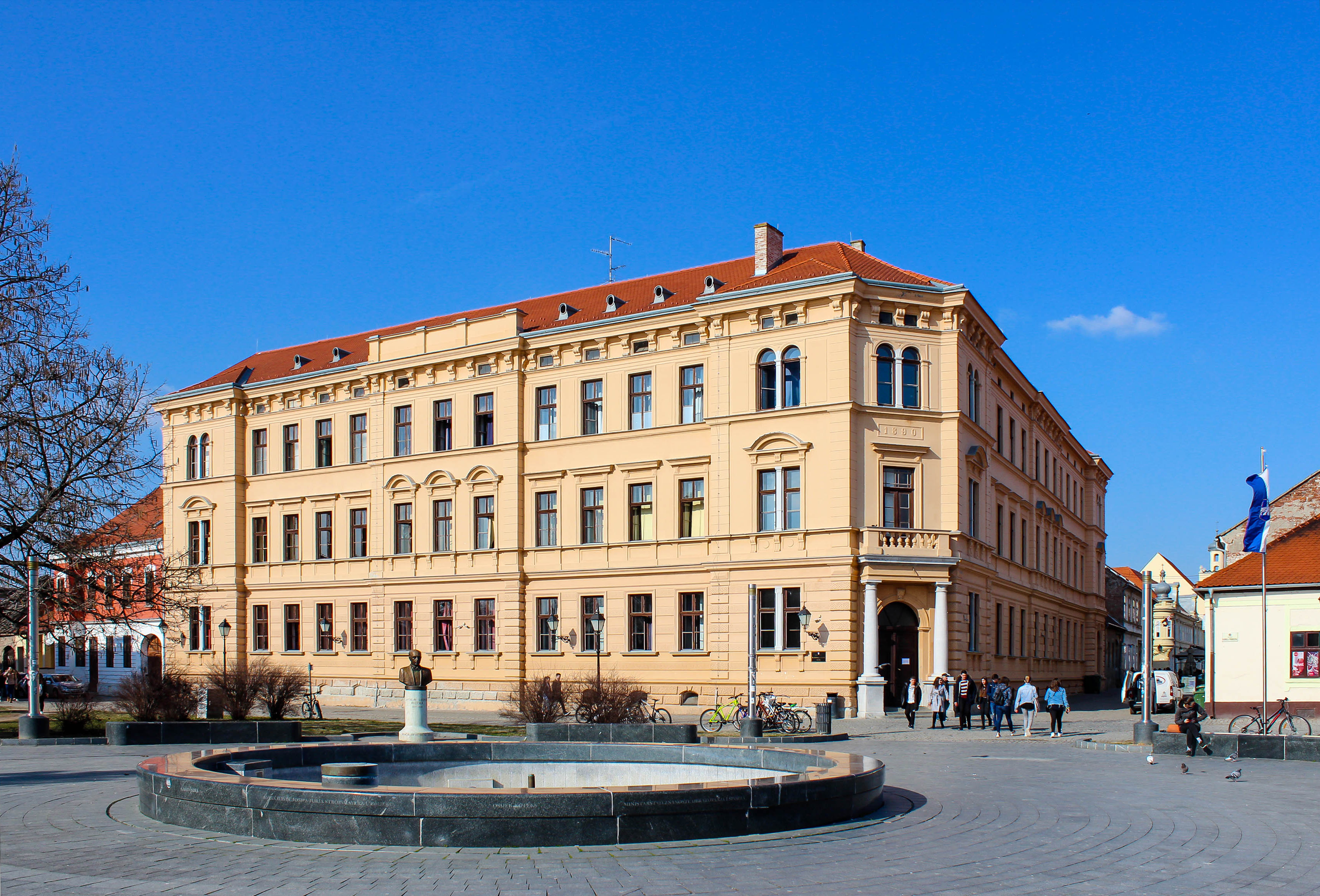 School